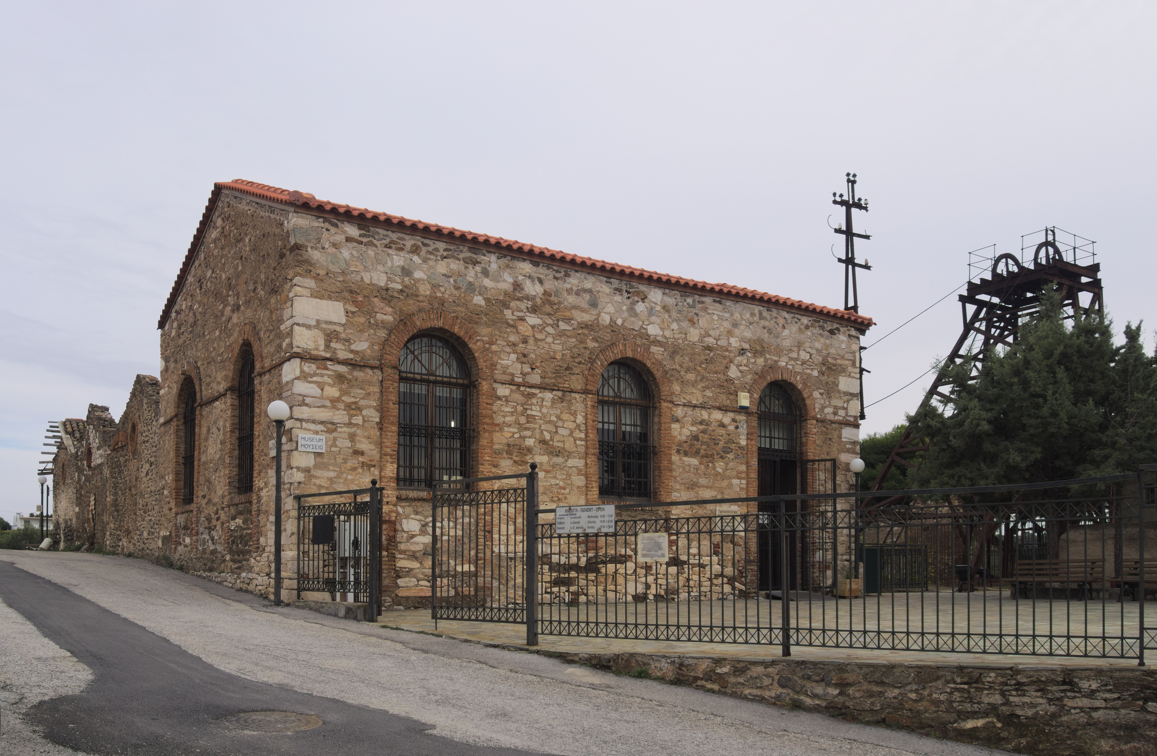 The engine room (now a museum) and the elevator of the Serpieri mine, Kamariza, south Attica.